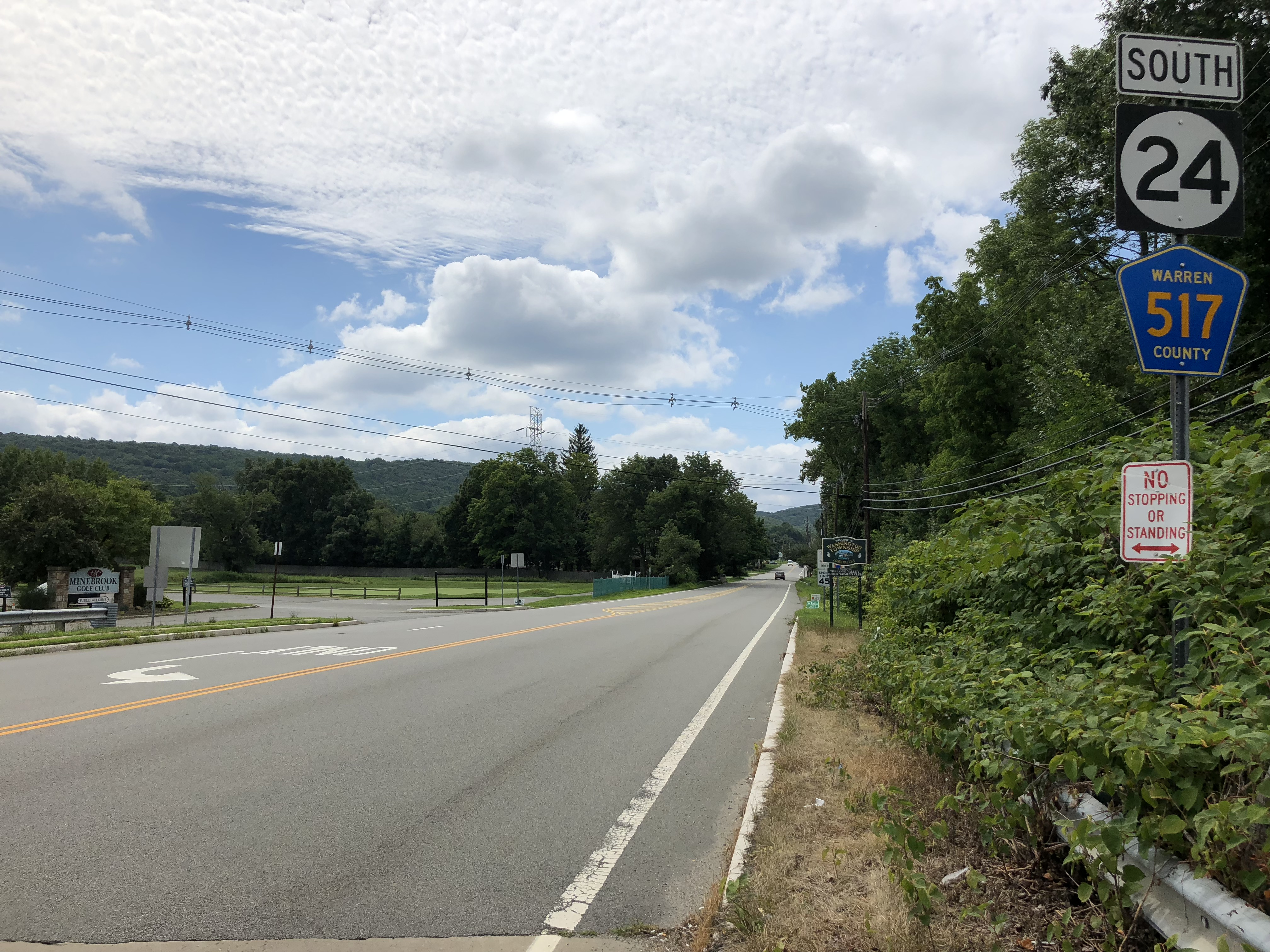 View south along Morris County Route 517 (Schooleys Mountain Road) just south of the Musconetcong River in Washington Township, Morris County, New Jersey